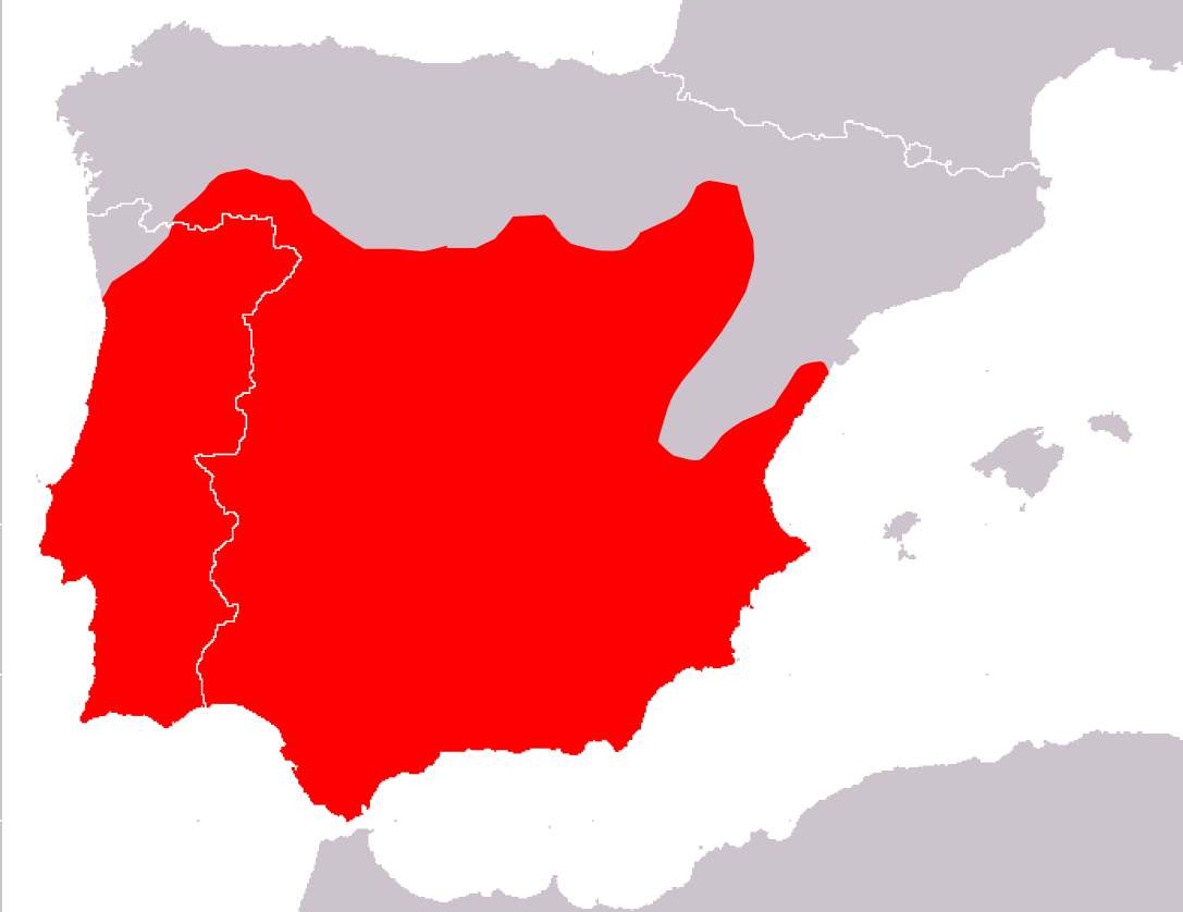 Blanus cinereus distribution map.